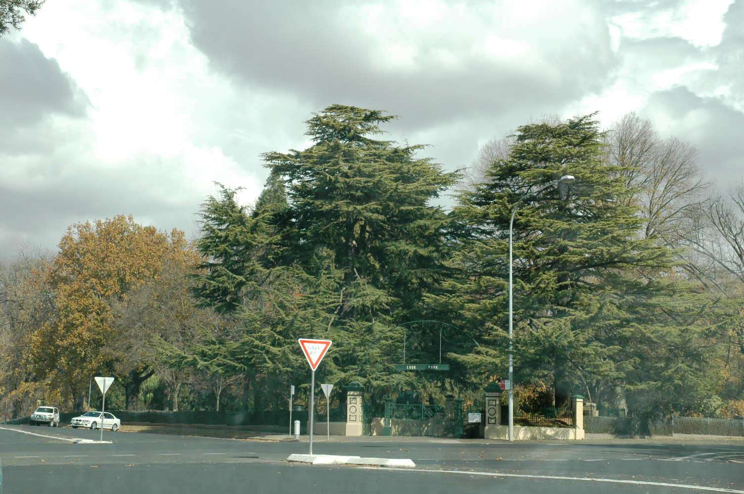 Gate at the corner of Summer Street and Clinton Street to Cook Park at Orange, New South Wales.